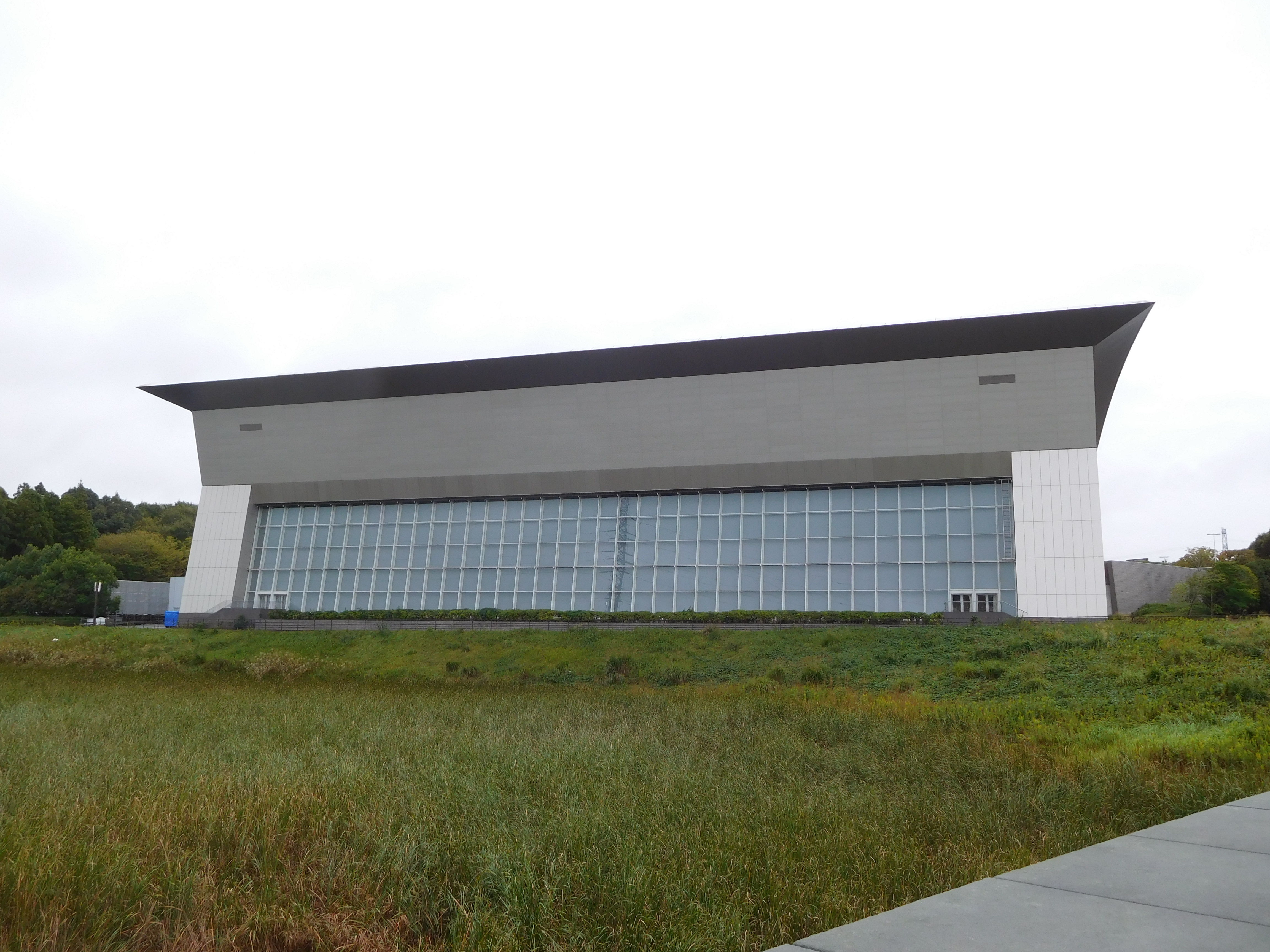 Kasamatsu Sports Park Indoor Swimming Pool & Ice Link in Hitachinaka, Ibaraki, Japan. Noｗ it is called "Yamashin Swimming Arena", since the naming rights are introduced.